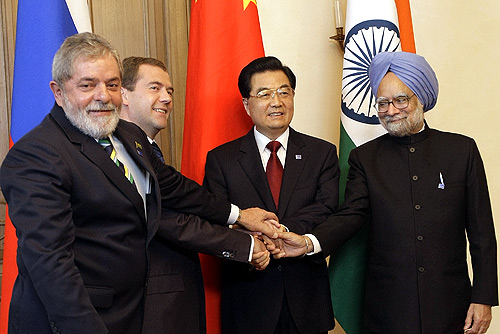 Yekaterinburg, Russia. BRIC (Brazil, Russia, India and China) leaders during the 1st BRIC summit, June 16, 2009.